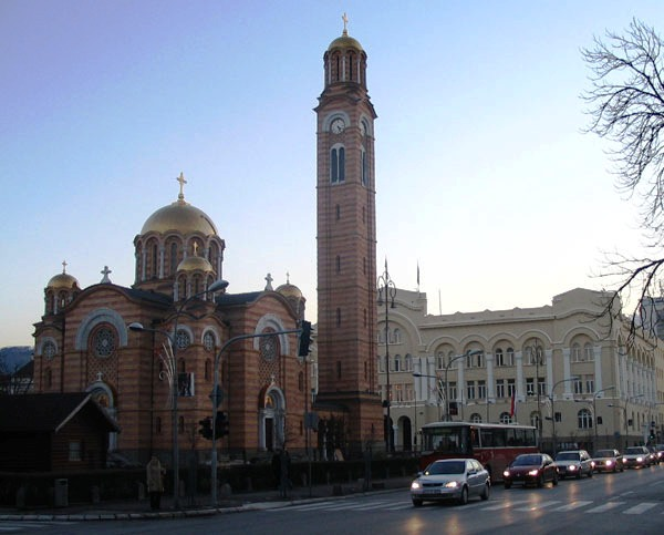 Orthodox church of the Holy Trinity, Banja Luka, Republika Srpska (BiH)